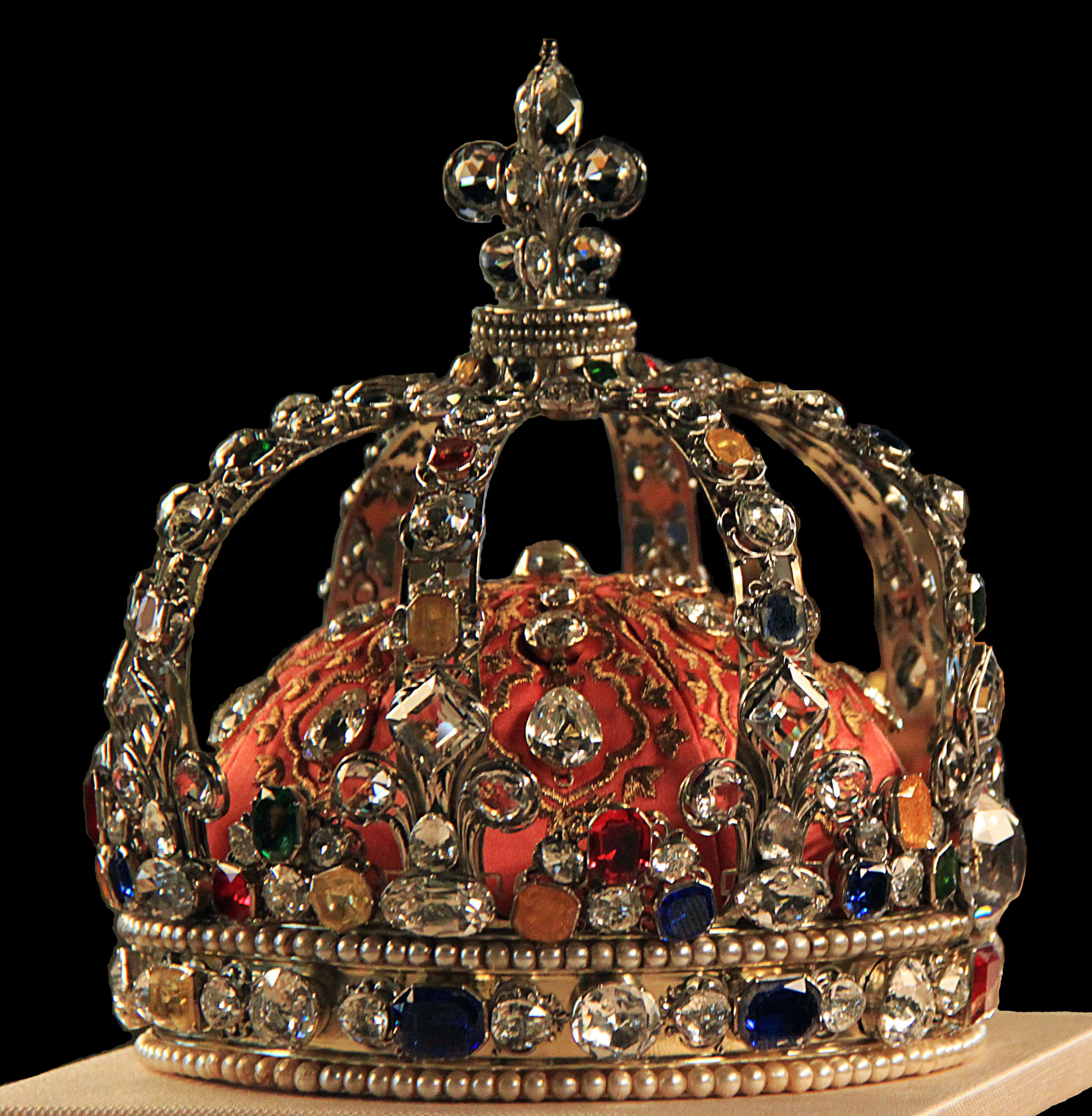 Louis XV crowns. Musée du Louvre, April 2011